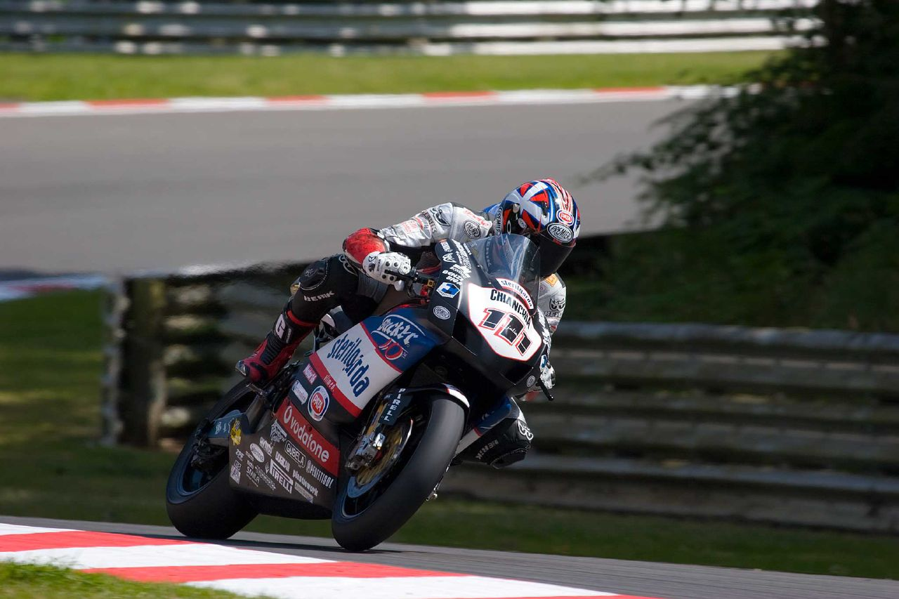 WSBK Round 10 Brands Hatch 2007